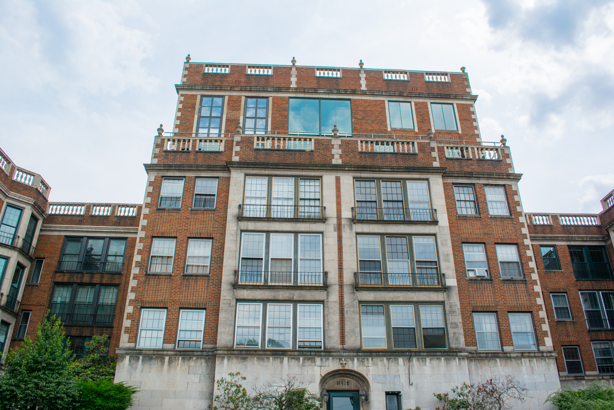 11428 Cedar Glen Parkway in Cleveland, Ohio, in the United States. This building is part of the interconnected Cedar Glen Apartments. Owned and designed by prominent local architect Samuel E. Weis (a.k.a. Samuel E. White), they were completed in 1927. The complex was added to the National Register of Historic Places on June 17, 1994.